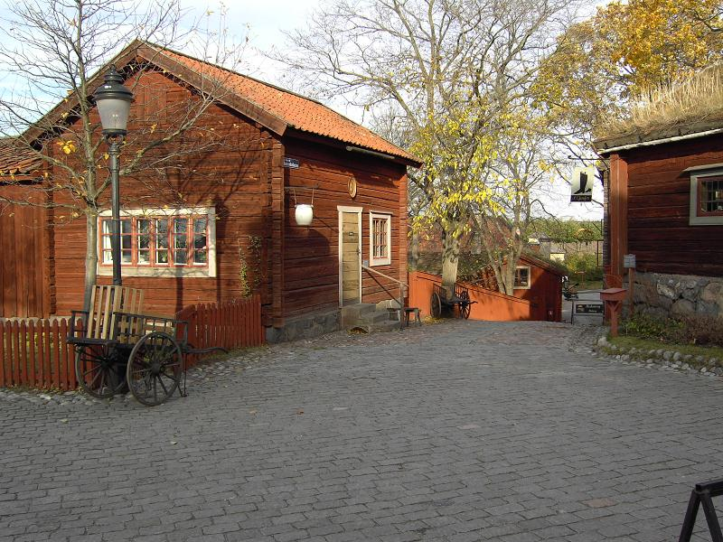 two old houses in the village of Skansen in Stockholm; on the left hand side there's a pottery, on the right hand side a shoeshop